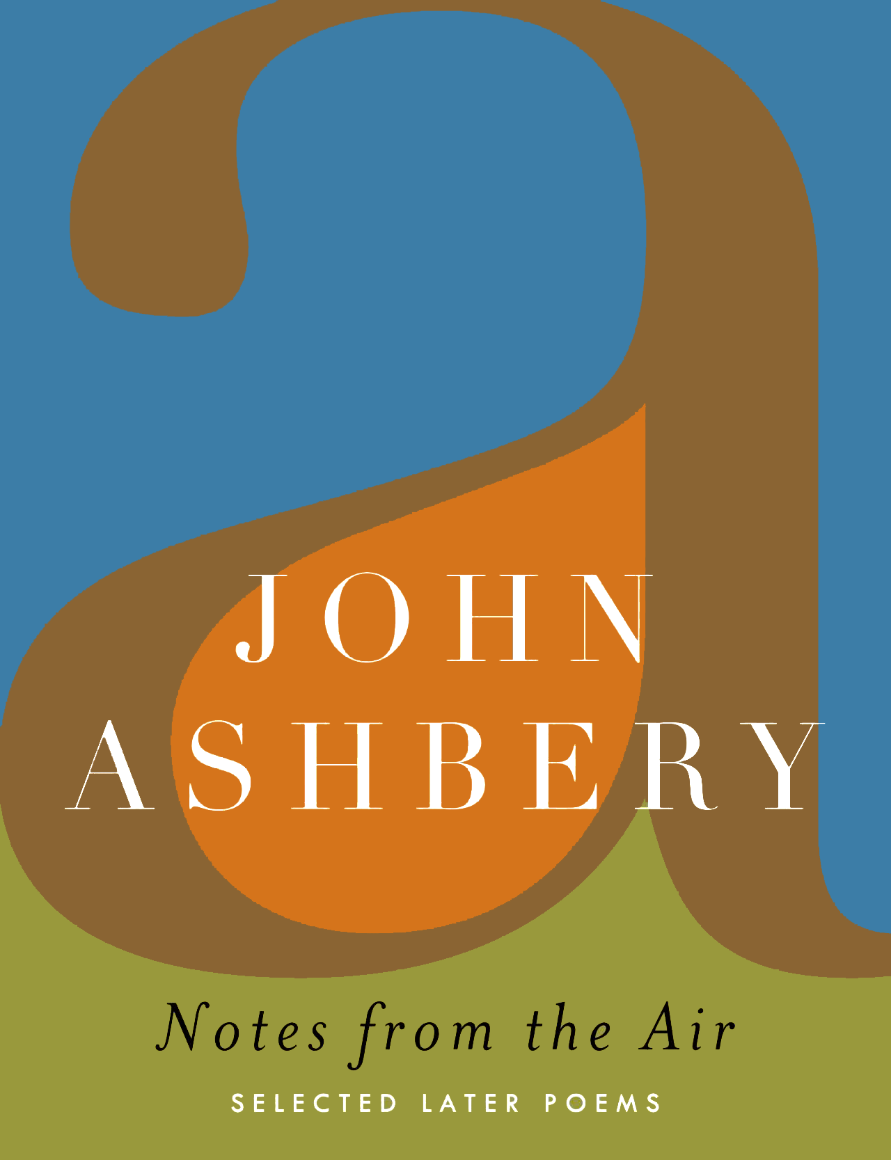 Cover of Notes from the Air: Selected Later Poems (2007) by John Ashbery. Published by Ecco Press.